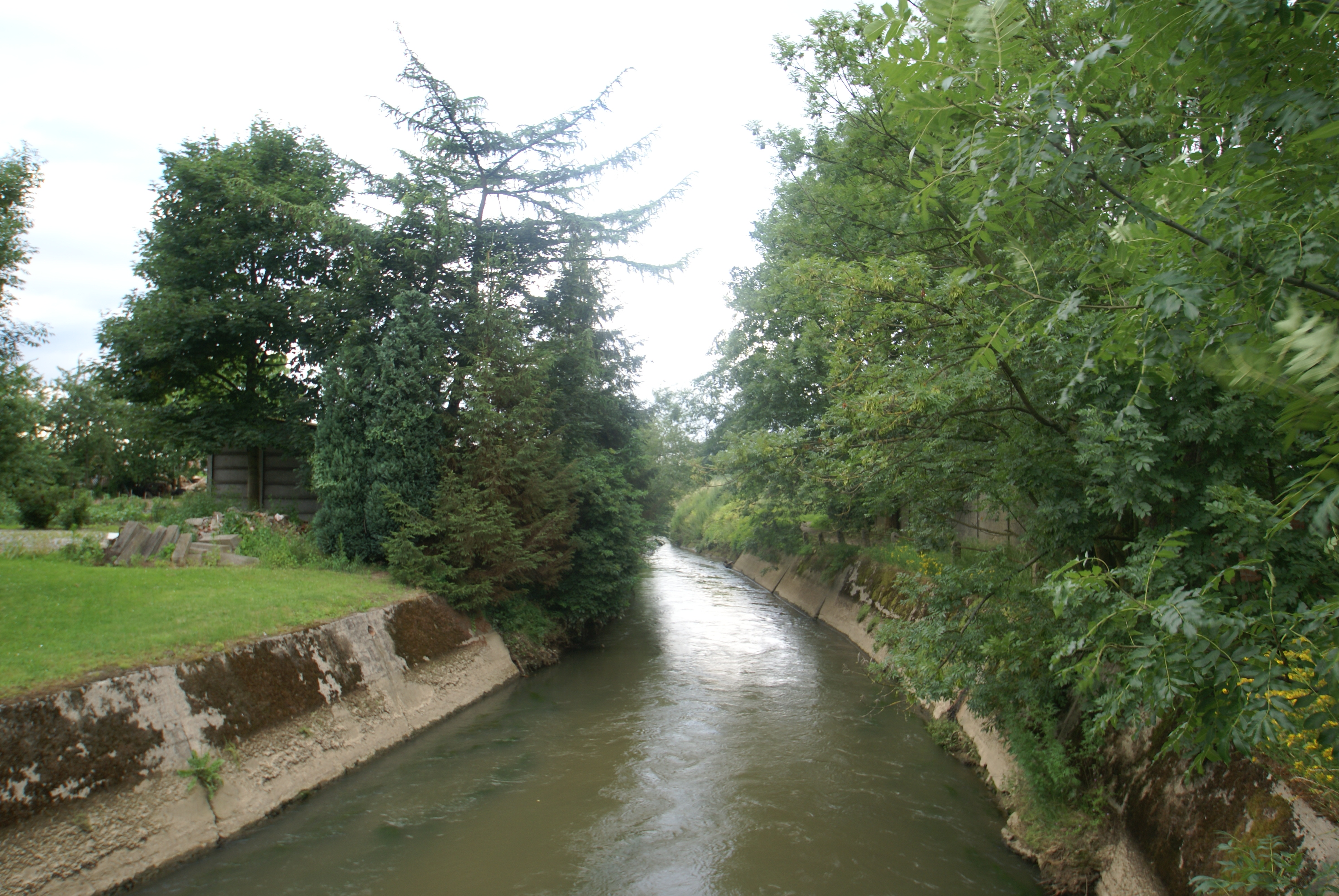 Rotselaar (Belgium): The Winge River